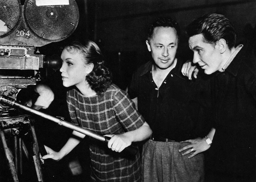 Publicity still for Winterset - L. to R. : Margo (mexican actress), J. Peverell Marley (cinematographer) & Burgess Meredith (actor)